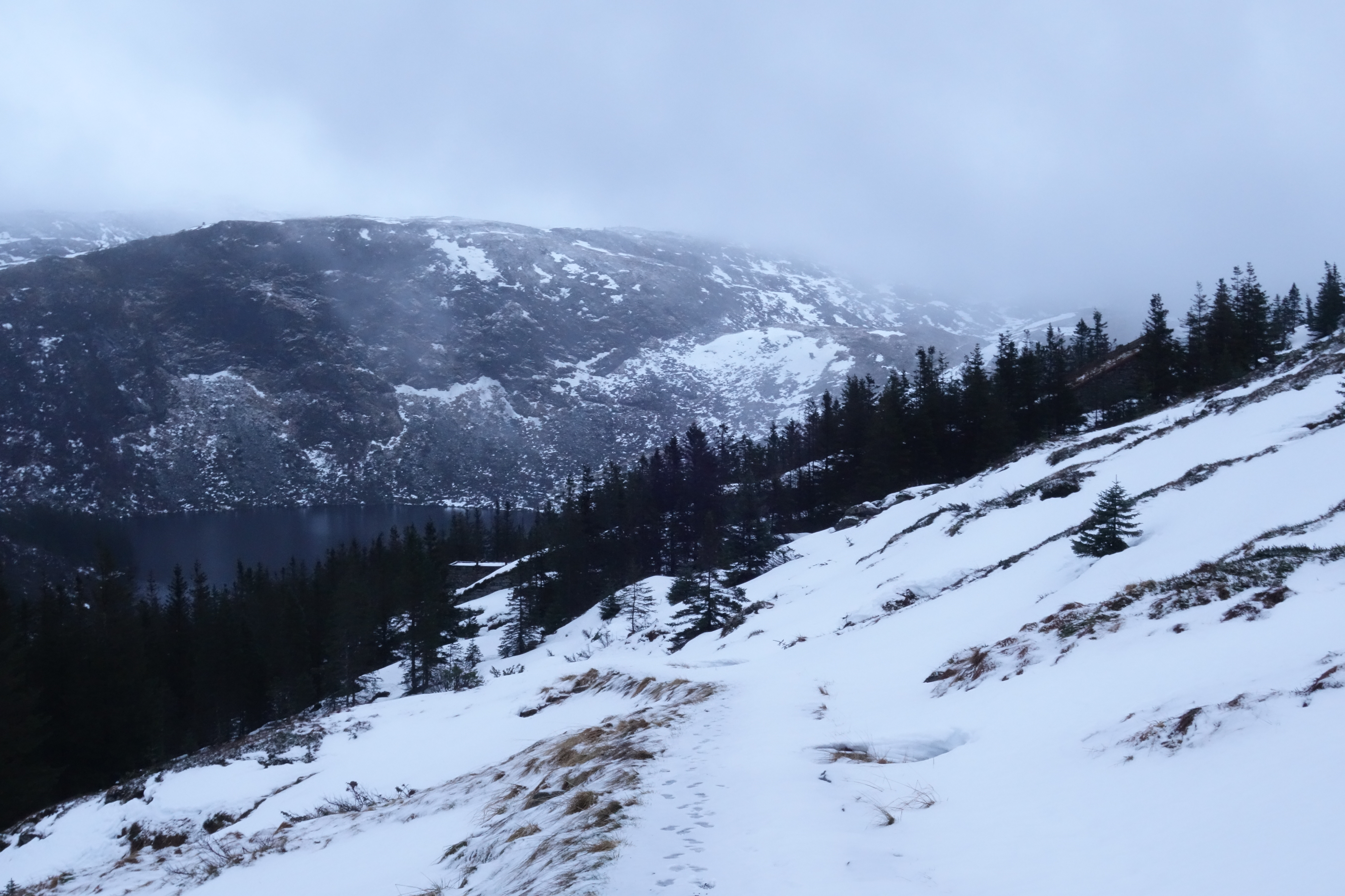 Bergensbakken 2015. Foto: Rune Drotninghaug.